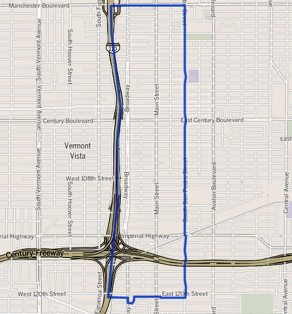 Outline map of Broadway-Manchester, as drawn by the Los Angeles Times Other information Note at bottom right of map on the L.A. Times website says "CC-by-SA" (which gives permission to use the map). There is a link there to which explains the meaning thereof. The base map is credited to